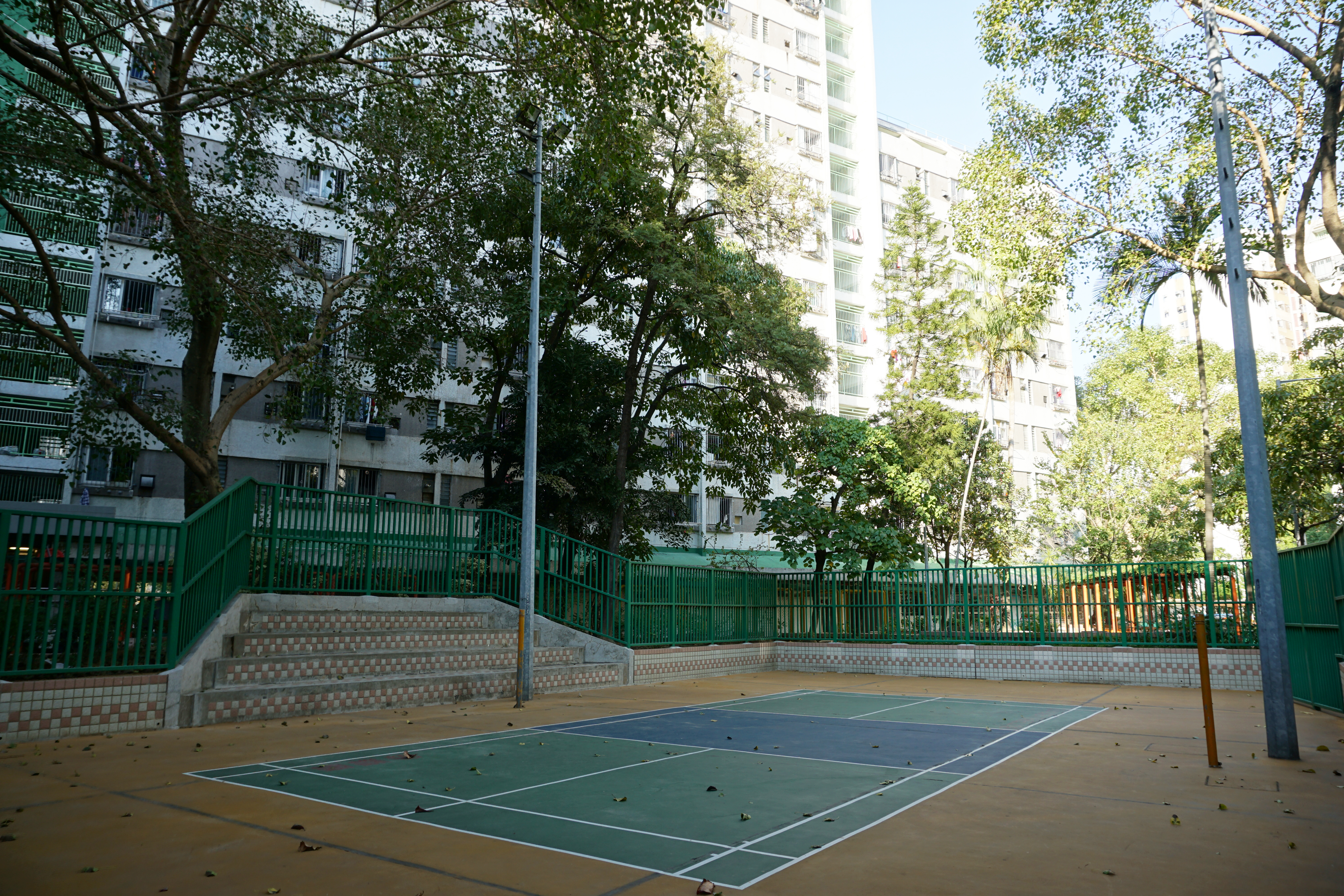 Butterfly Estate in Tuen Mun, Hong Kong.